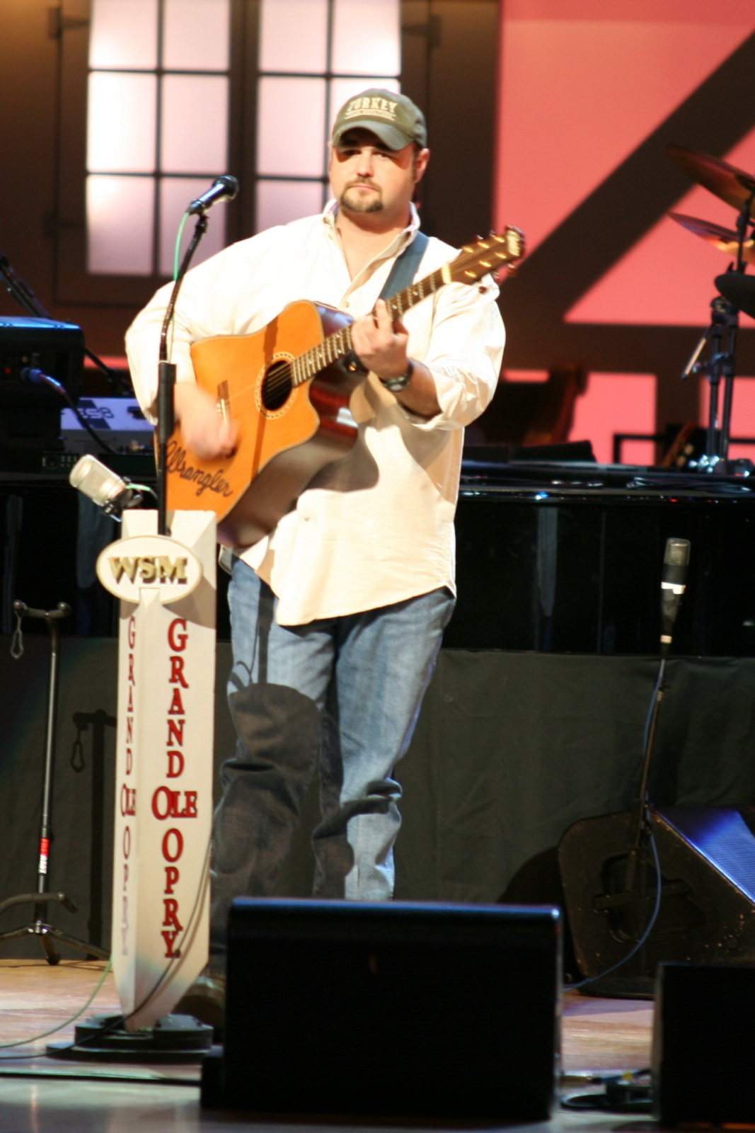 Daryle Singletary at the Grand Ole Opry House.